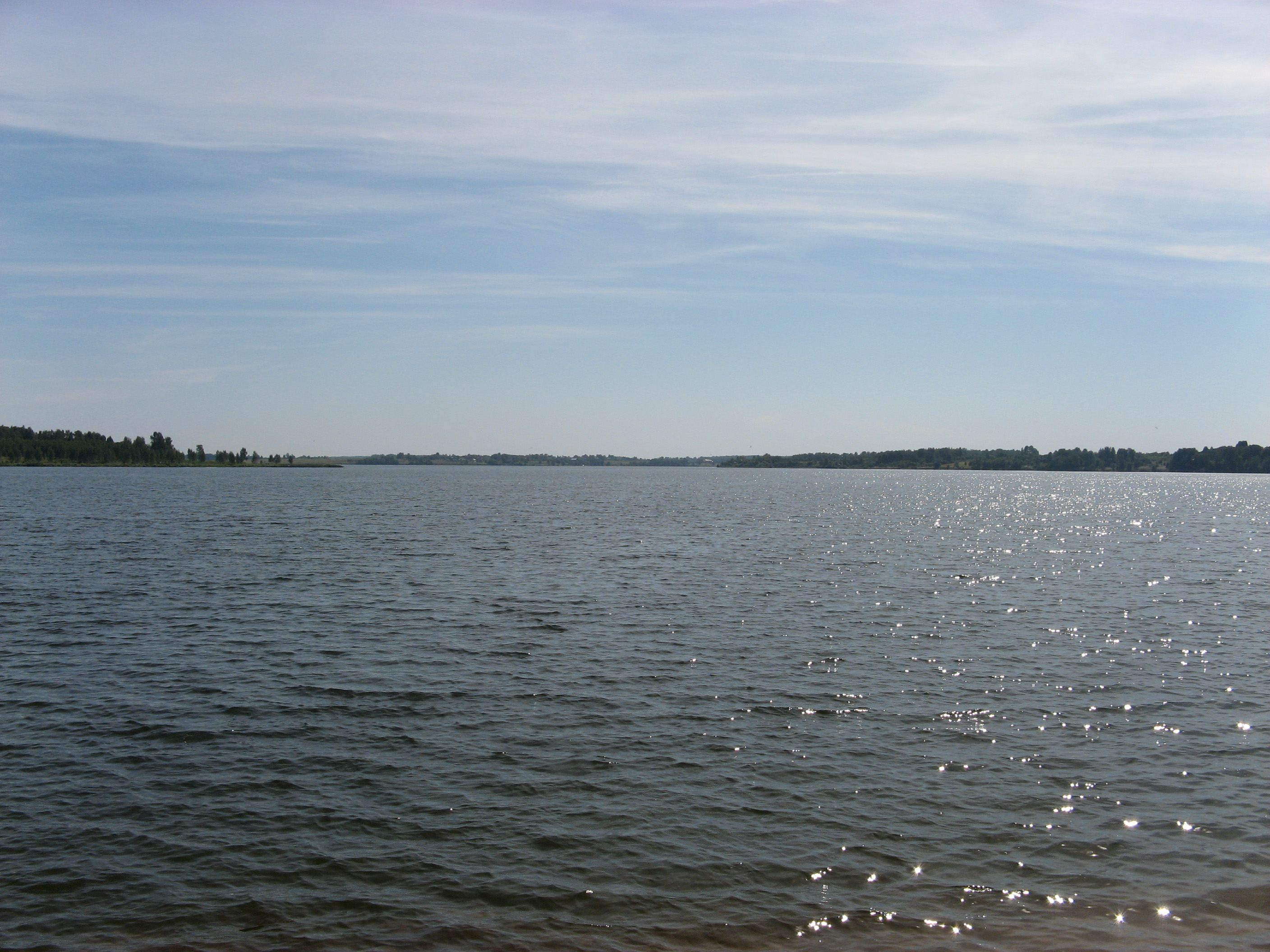 Vazuza Reservoir at summer